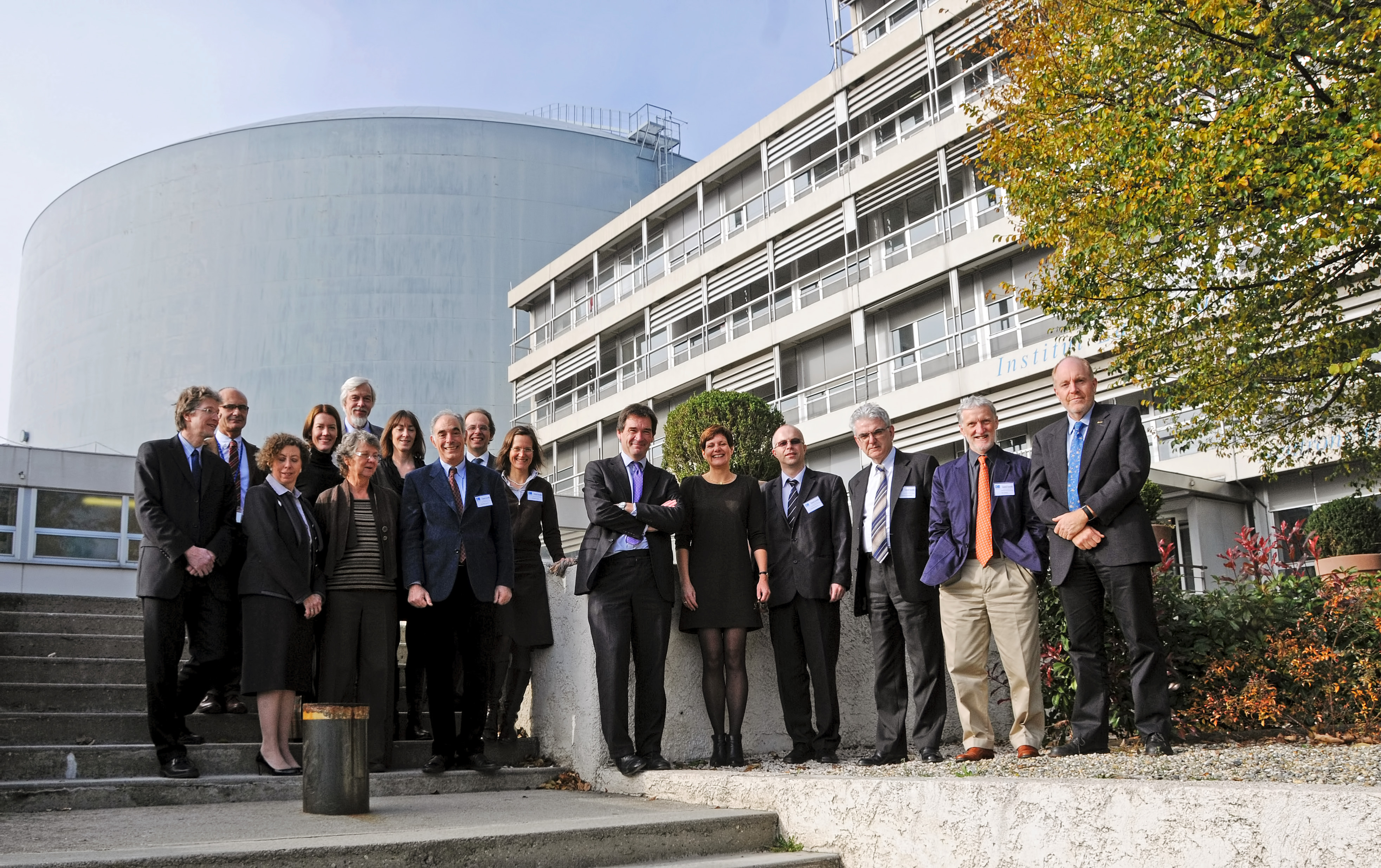 Participants in the EIROforum General Assembly 2012, held at the Institut Laue-Langevin (ILL) on 15–16 November 2012. From left to right are: Bruno Leibundgut, Director for Science, ESO; Francesco Sette, Director General, ESRF; Rowena Sirey, Head of External Relations, ESO; Vera Herkommer, European Affairs Officer, EMBL; (back) Rolf Heuer, Director General, CERN; (front) Eileen Clucas, Chair of EIROforum Coordination Group, ILL; Renata Witsch, Administrator – ESRF Directorate, ESRF; Massimo Altarelli, Chairman and Managing Director, European XFEL; Duarte Borba, Senior Advisor, EFDA-JET; Miriam Forster, Project Manager NMI3, ILL; Andrew Harrison, Director, ILL; Silke Schumacher, Director International Relations, EMBL; Svet Stavromir, Head of EU Projects Office, CERN; Francesco Romanelli, EFDA Associate Leader for JET, EFDA; Iain Mattaj, Director General, EMBL; Mark McCaughrean, Head of Research and Science Support Department, ESA.